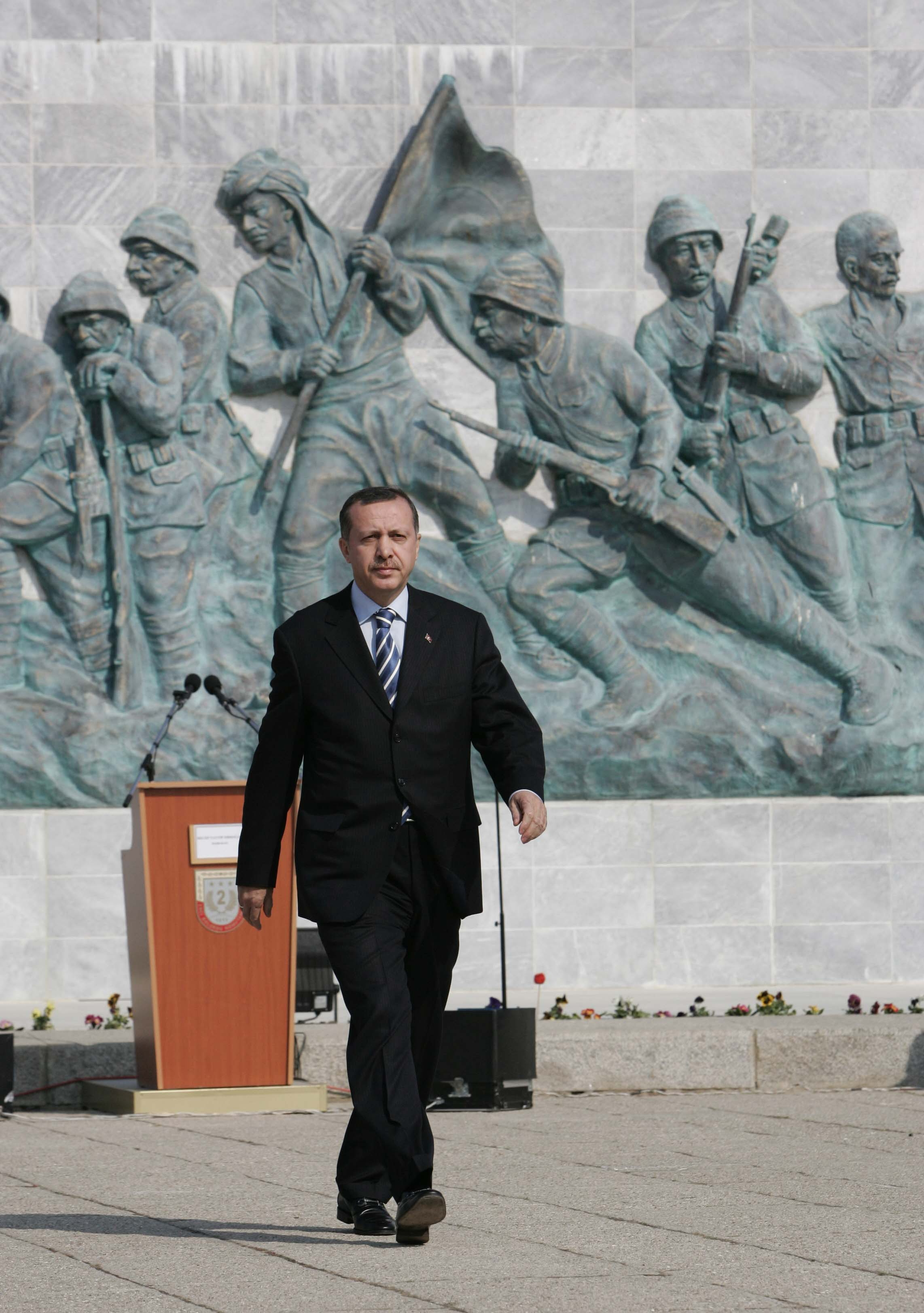 Recep Tayyip Erdoğan, Prime Minister of Turkey at Çanakkale